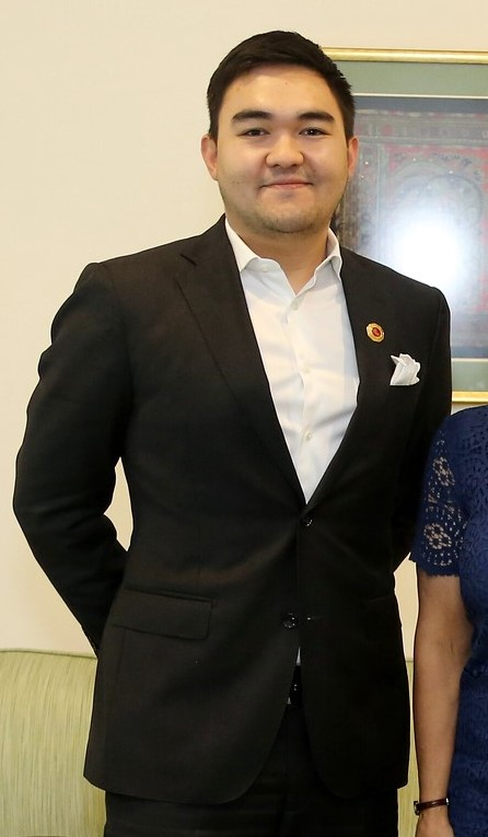 His Royal Highness Crown Prince Tengku Amir Shah ibni Sultan Sharafuddin Idris Shah Al-Haj during his visit to United States Embassy in Kuala Lumpur on 25 October 2017